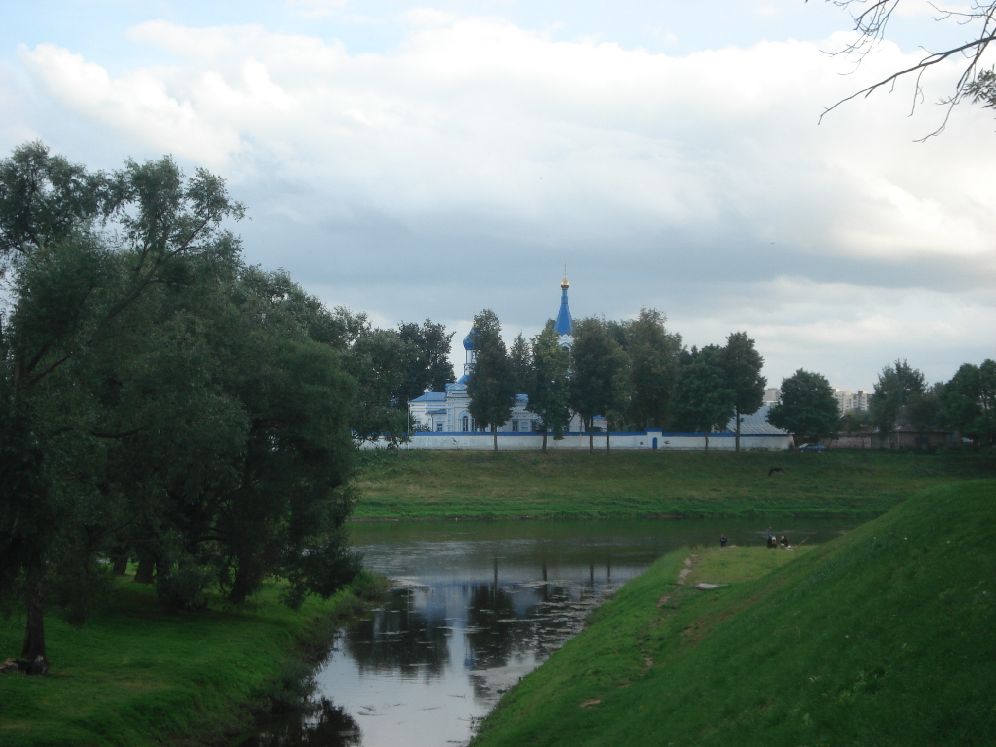 Othodox Church in Vorša